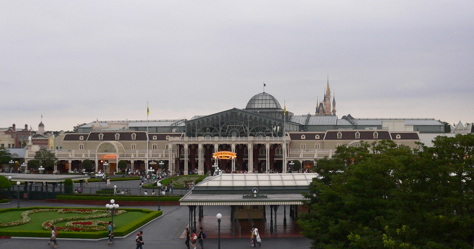 Tokyo Disneyland